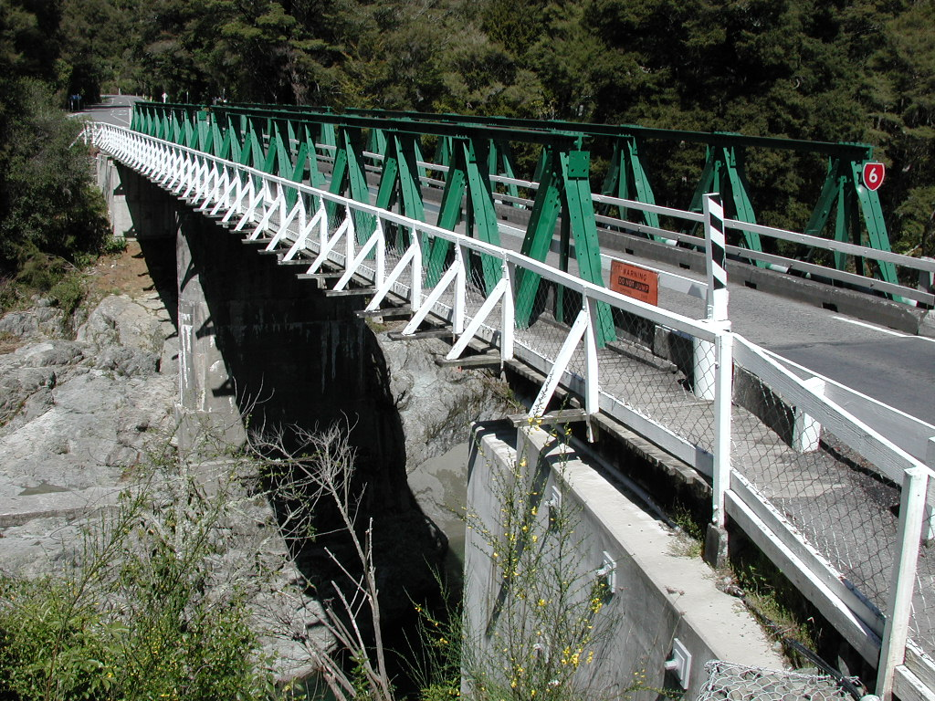 Pelorus Bridge - SH6 crosses Pelorus River